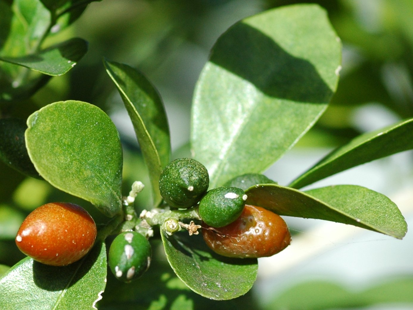 Close up of Murraya paniculata fruits